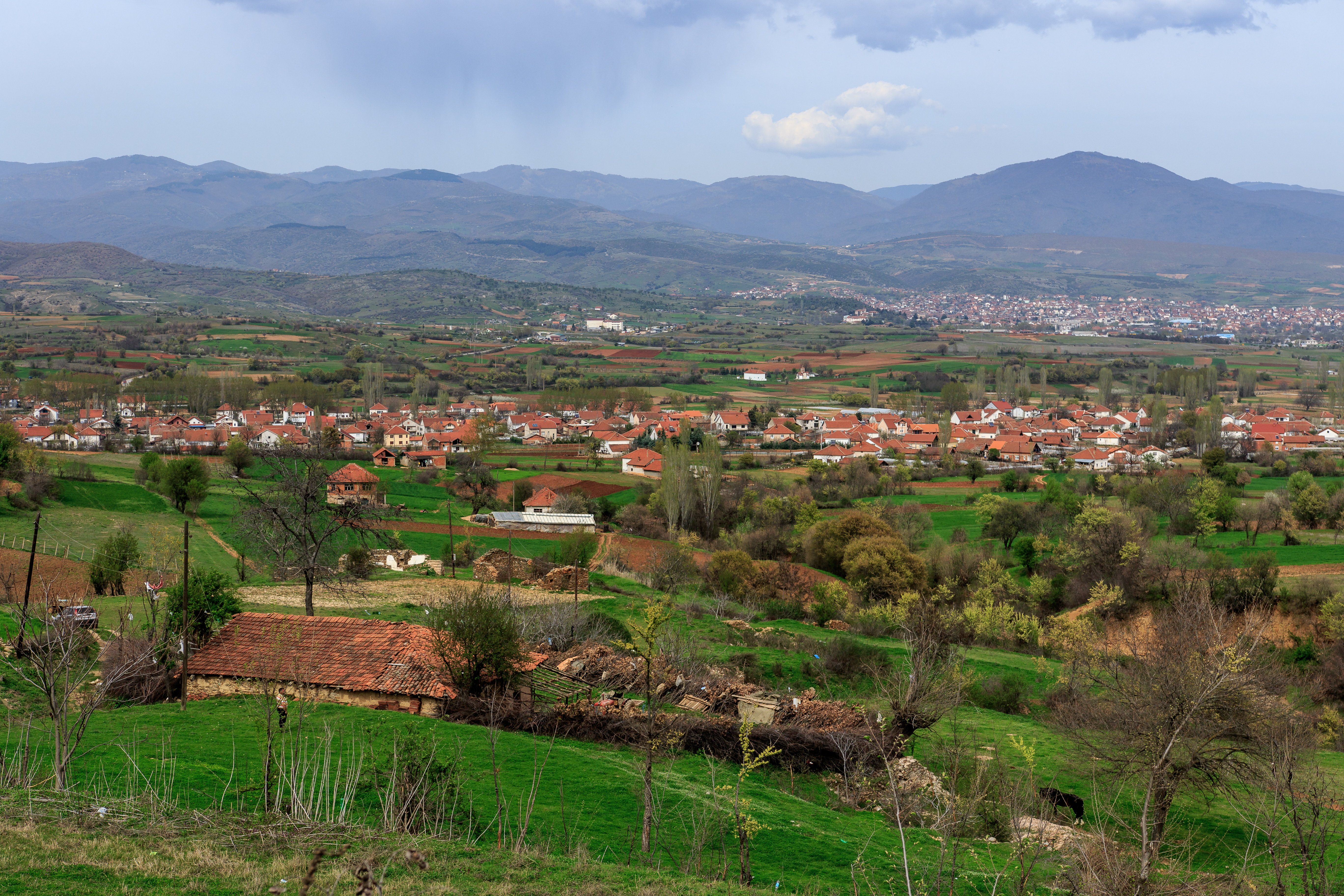 Panoramic view of the village Injevo (in background is Radoviš